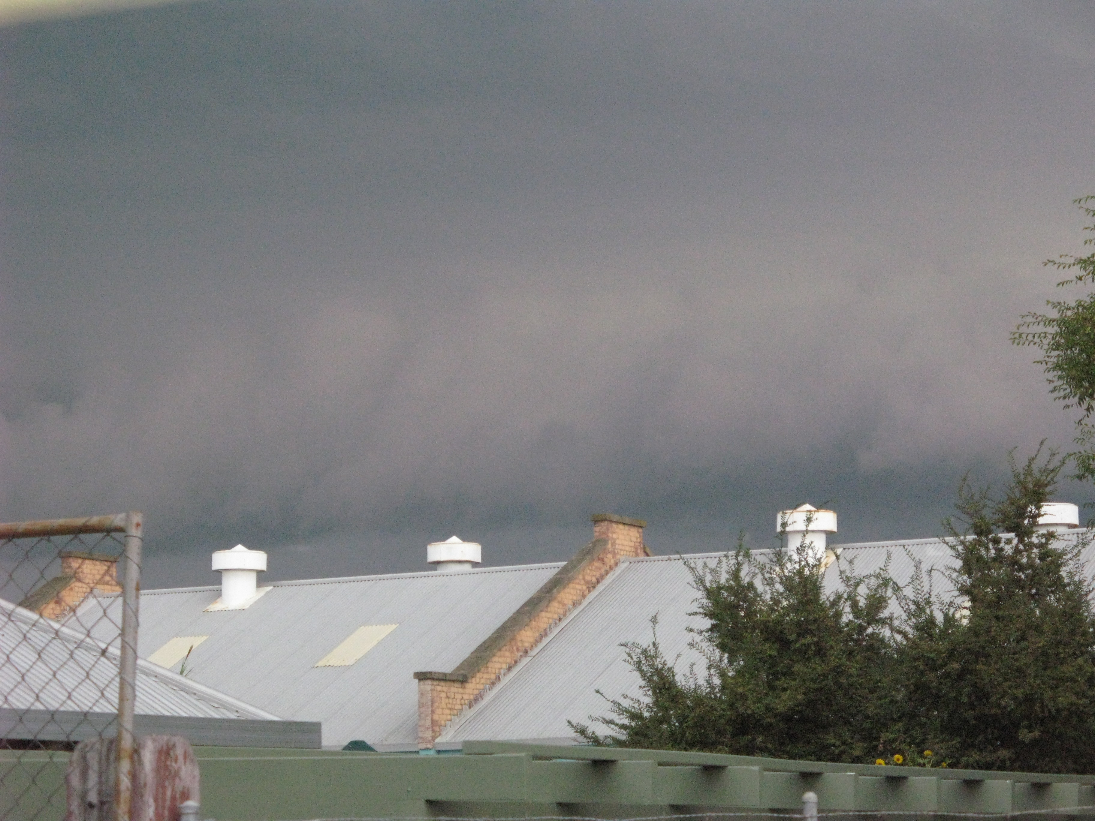 The Perth storm of 2010 passing over the northern suburbs on approach to Perth city. Photo taken by myself in March 2010.